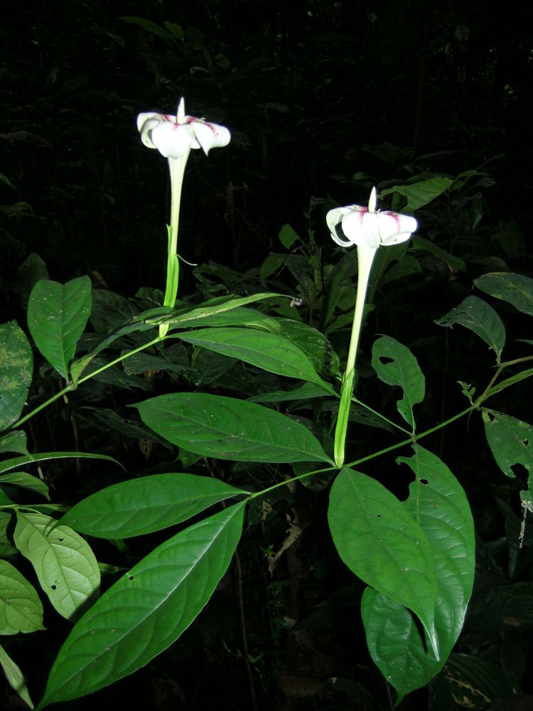 Rothmannia lateriflora (Rubiaceae) from the Dja Faunal Reserve. Photo: B Sonké.